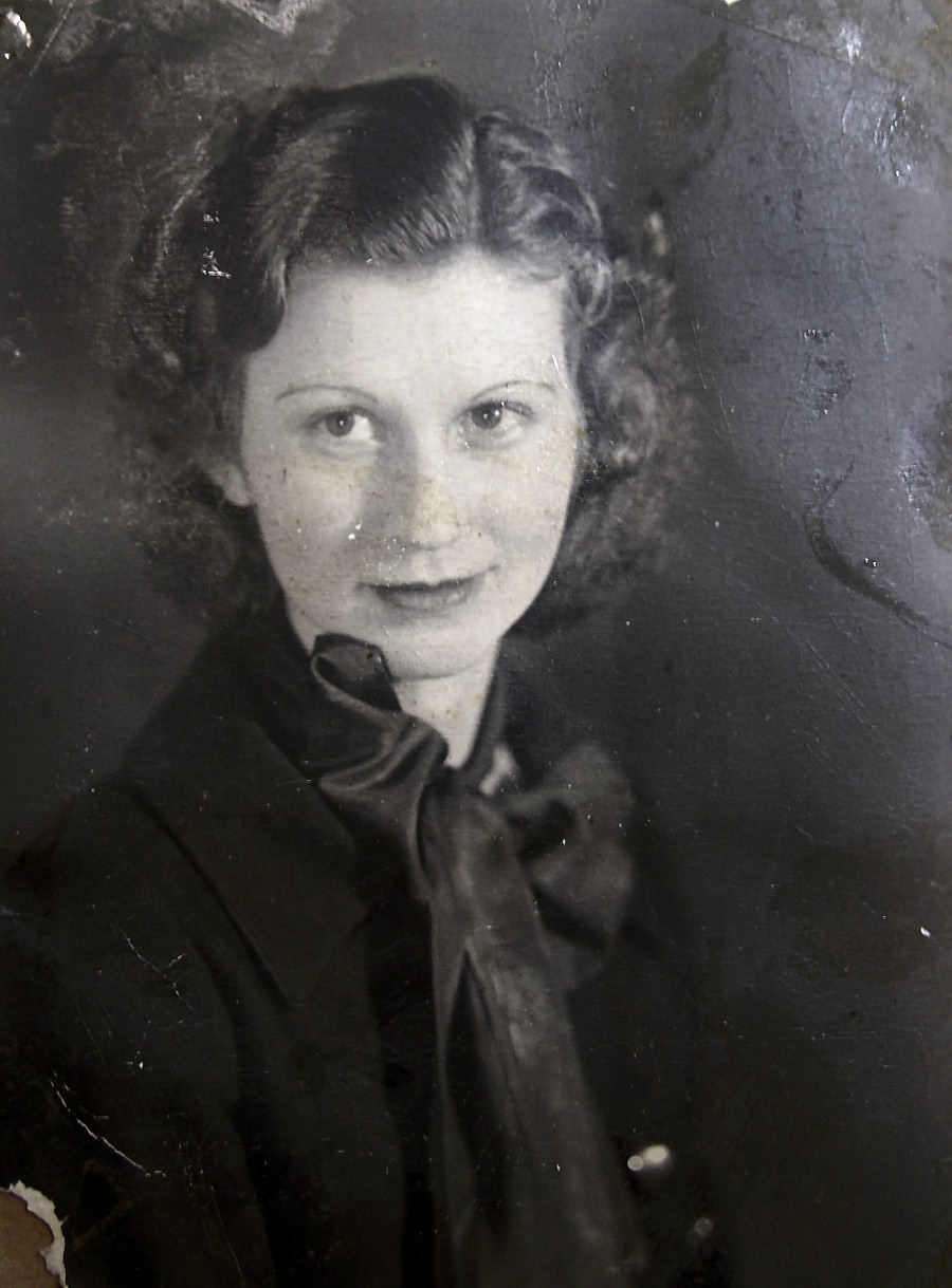 Portrait of woman.